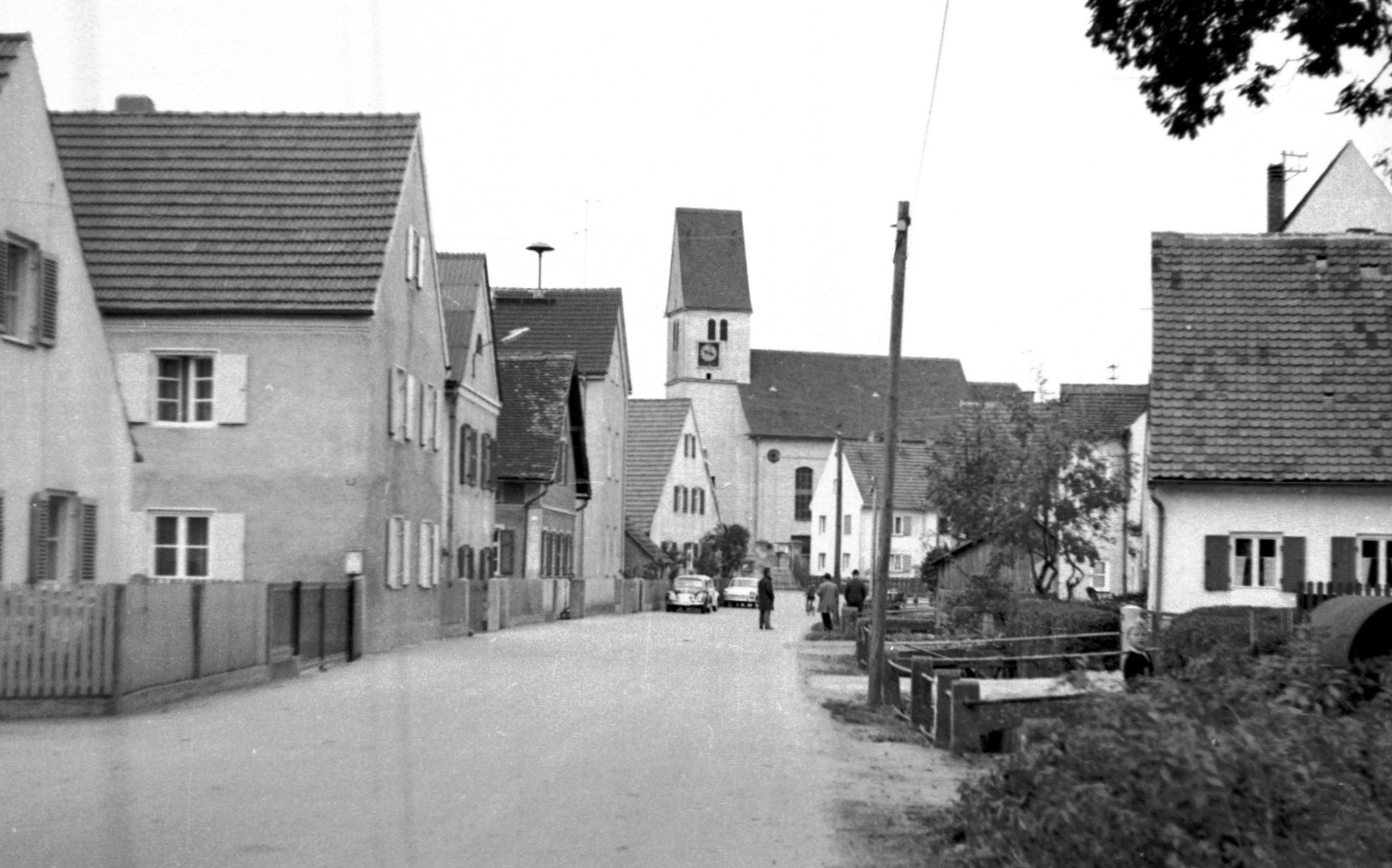 Dorfstraße von Zell vor der Absiedlung des Dorfes.